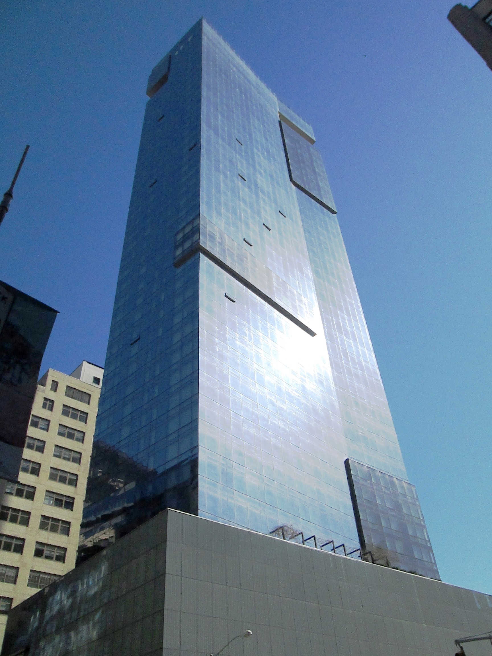 The Trump SoHo, located at the corner of Varick Street and Spring Street in the Hudson Square neighborhood of Manhattan, New York City, was designed by David Rockwell and Handel and Associates. Originally built as residences, the building was too tall for the area's zoning, so it was converted into a "hotel" which the inhabitants can only live in for part of the year. The building was then built higher than allowed even for an hotel. It was completed in 2008. The AIA Guide to New York City calls it a "banal glass box". (Source: AIA Guide to NYC (5th ed.)) This view of the building's tower is from Varick Street.